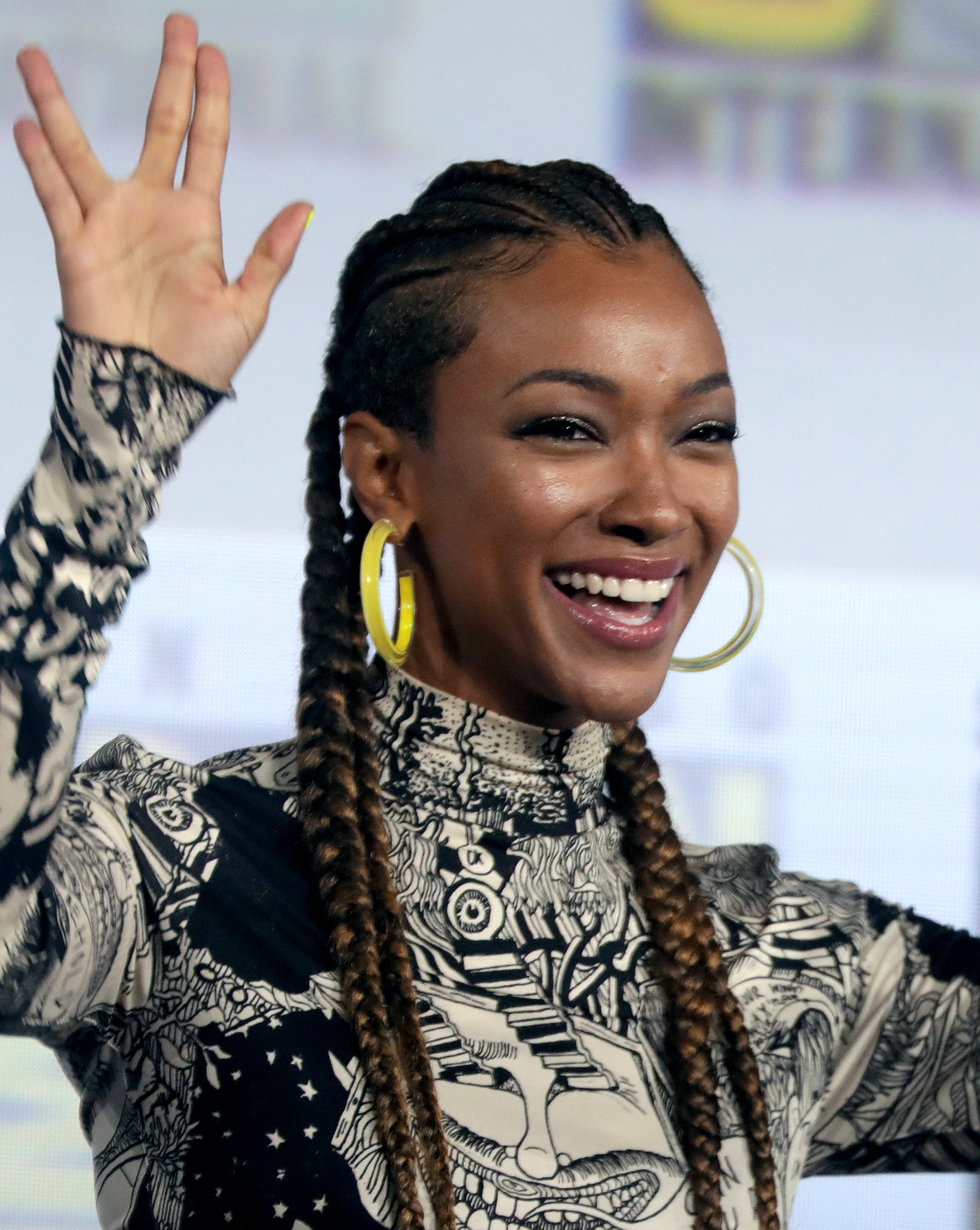 Sonequa Martin-Green speaking at the 2019 San Diego Comic Con International, for Star Trek: Discovery, at the San Diego Convention Center in San Diego, California.